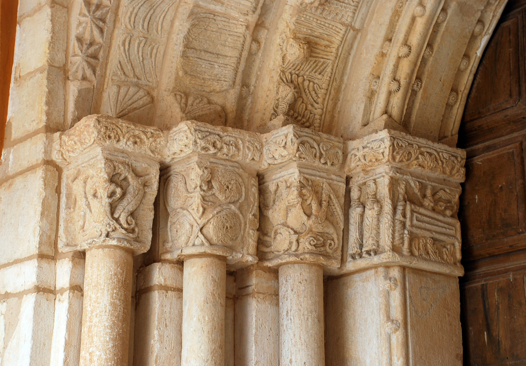 Capitals of the church of Saint Quirico in Castrillo de Villavega (Palencia, Castile and León).